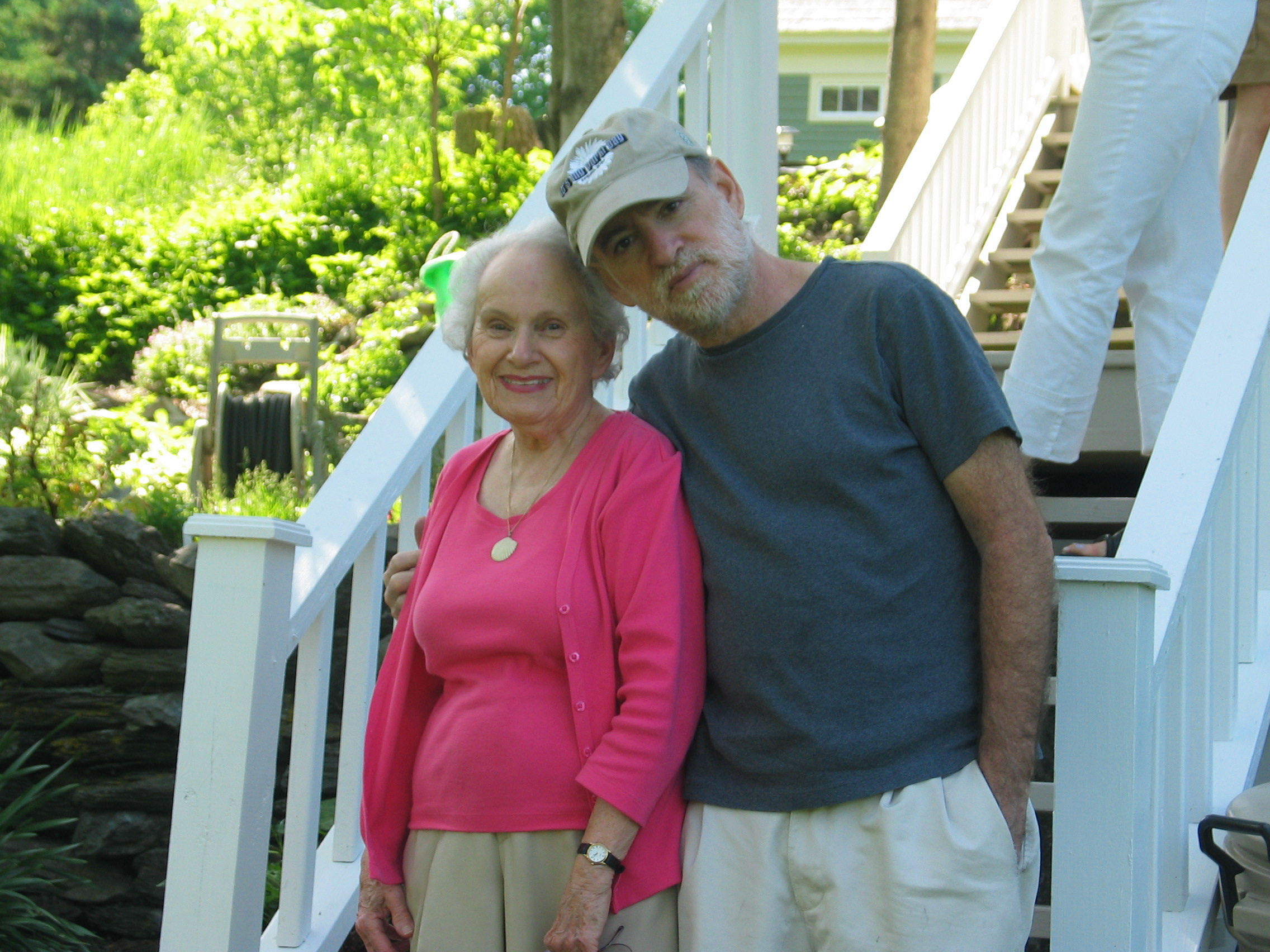 Photo of architect Frederic Schwartz with his mother, Charlotte Schwartz.